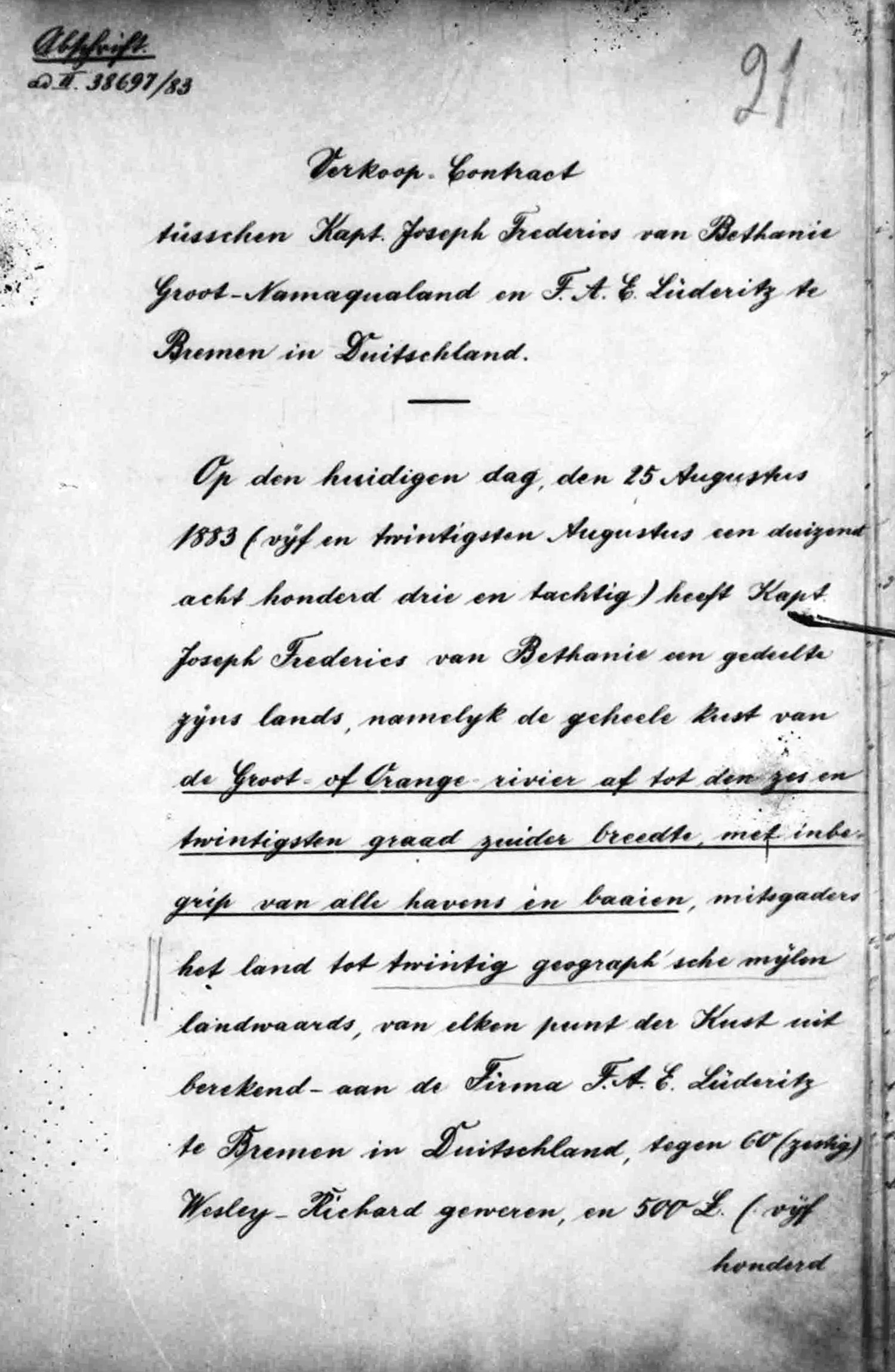 Contract between Josef David Frederiks (Nama-Captain of Bethanien) and Heinrich Vogelsang (Agent of Adolf Lüderitz), 25 August 1883.